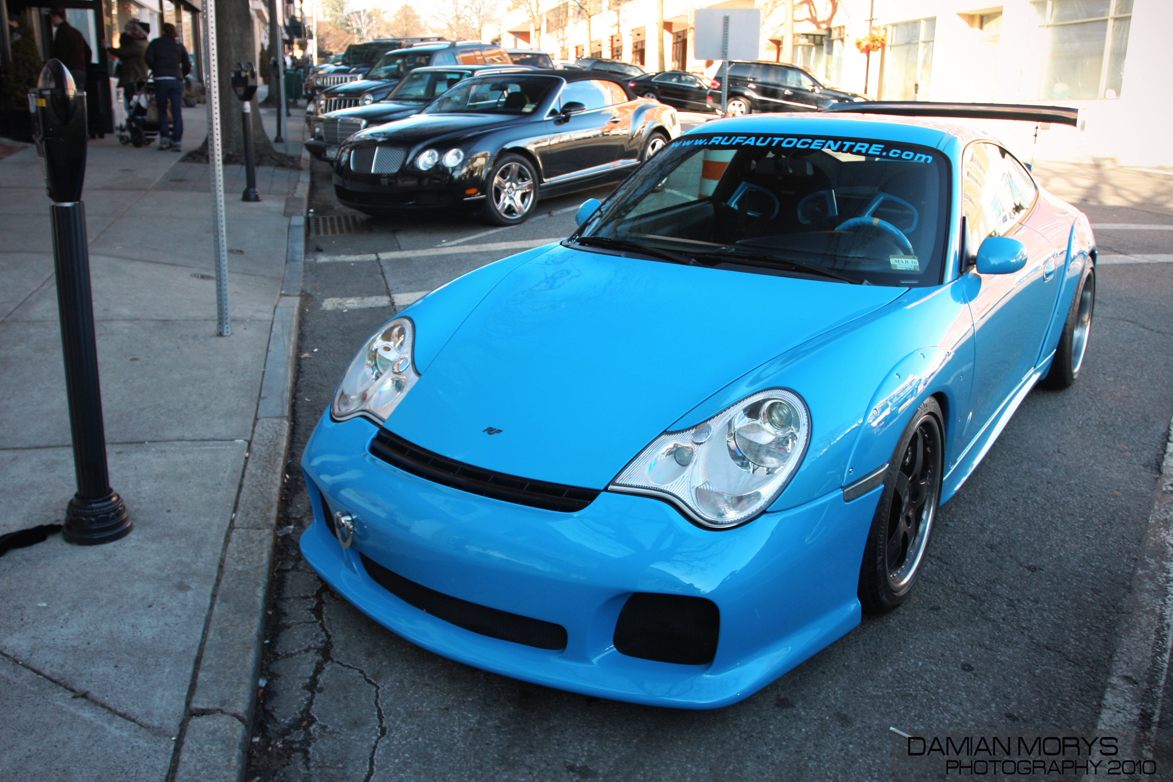 Blue RUF 996 RGT in Greenwich, CT on 2010-01-16.